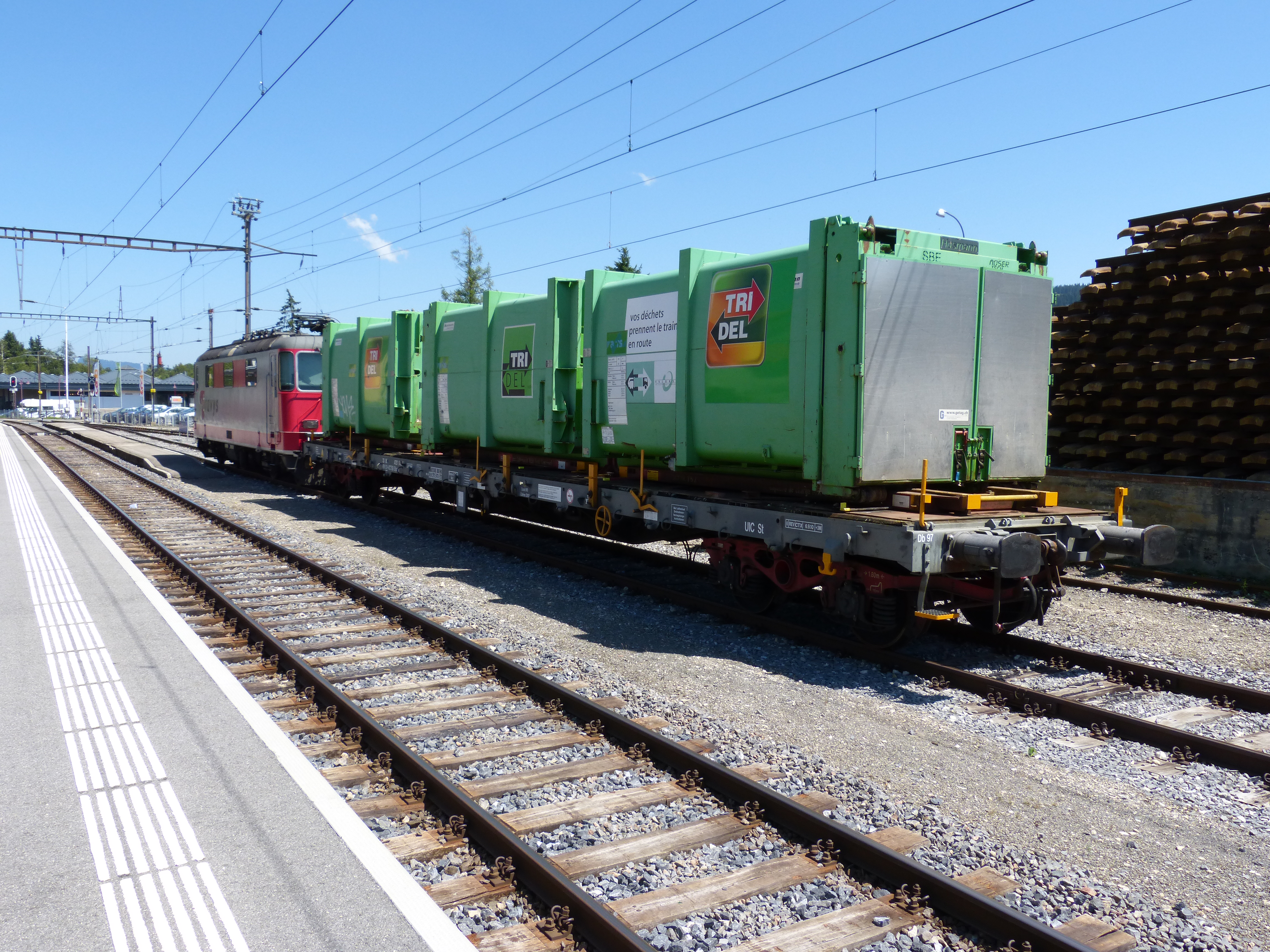 Garbage wagons Tridel parked at the railway station Sentier-Orient.